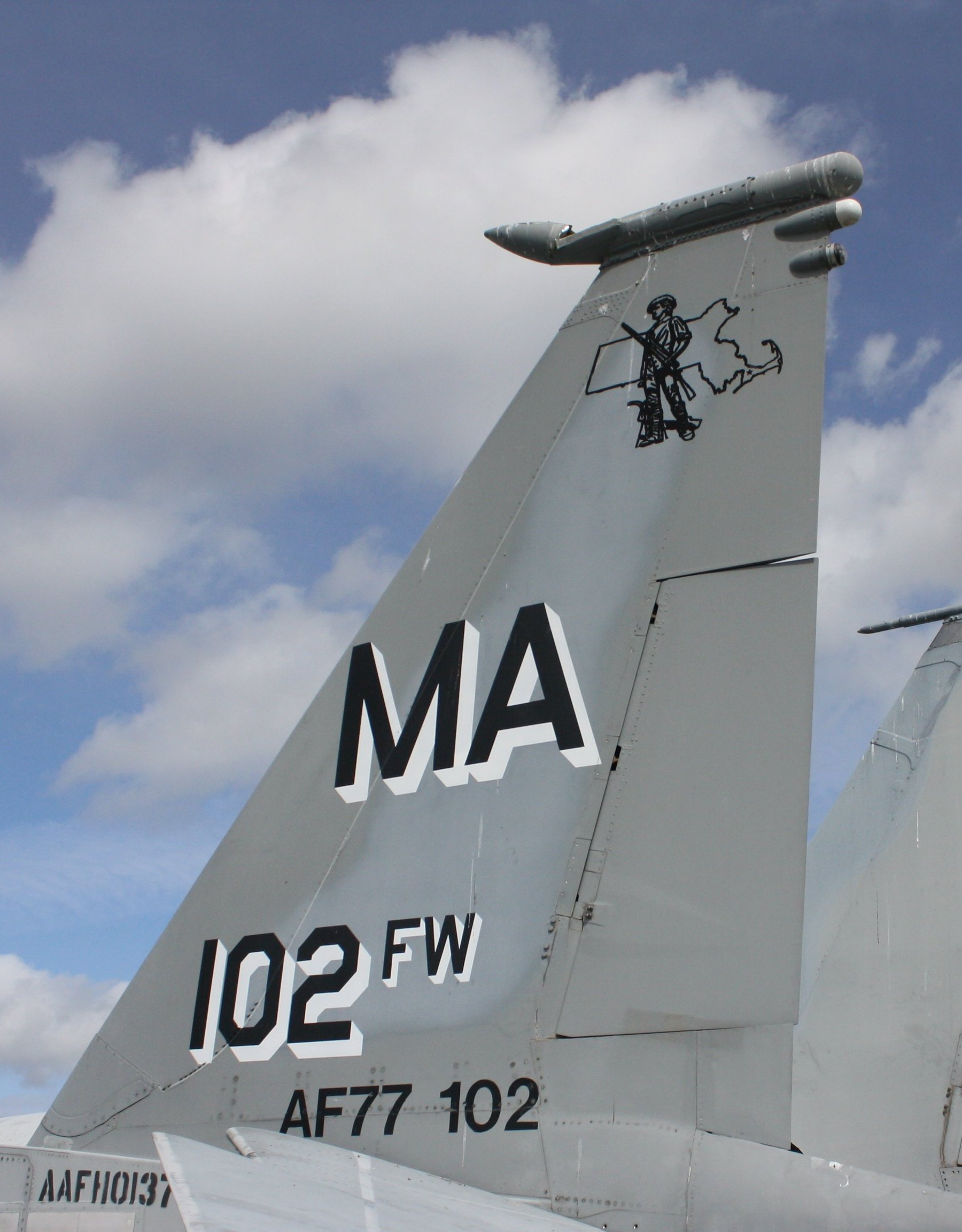 USAF F-15 Eagle, 9-11 First Responder, Pacific Coast Air Museum, Charles M. Schulz Sonoma County Airport, Santa Rosa, California